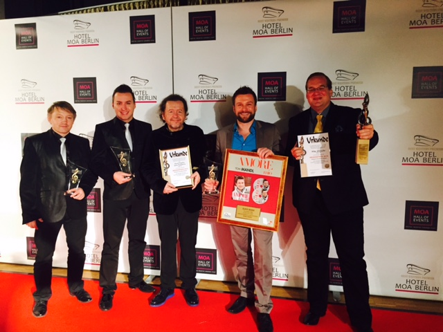 Duo Jamaha, Karel Peterka, Tom Mandl and Filip Albrecht at the Smago Award